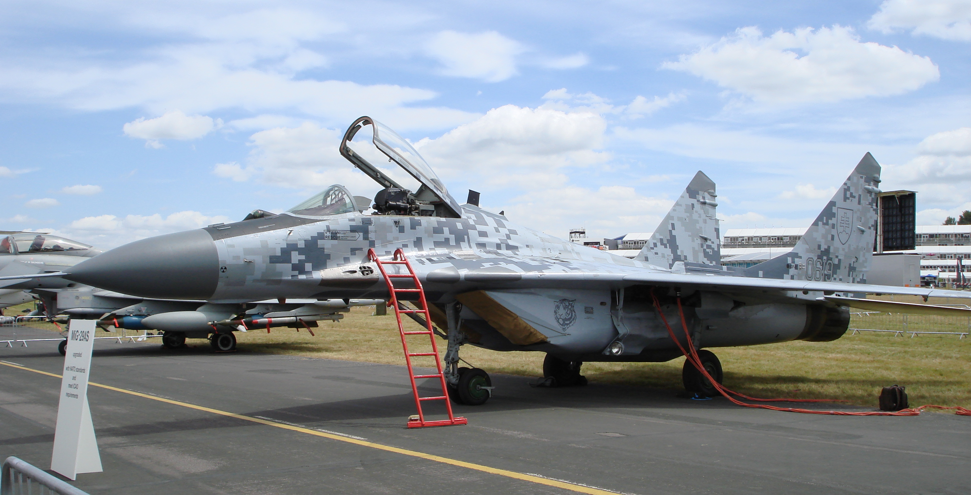 Slovak MiG-29AS - Upgrade with NATO standards and meets ICAO requirements.